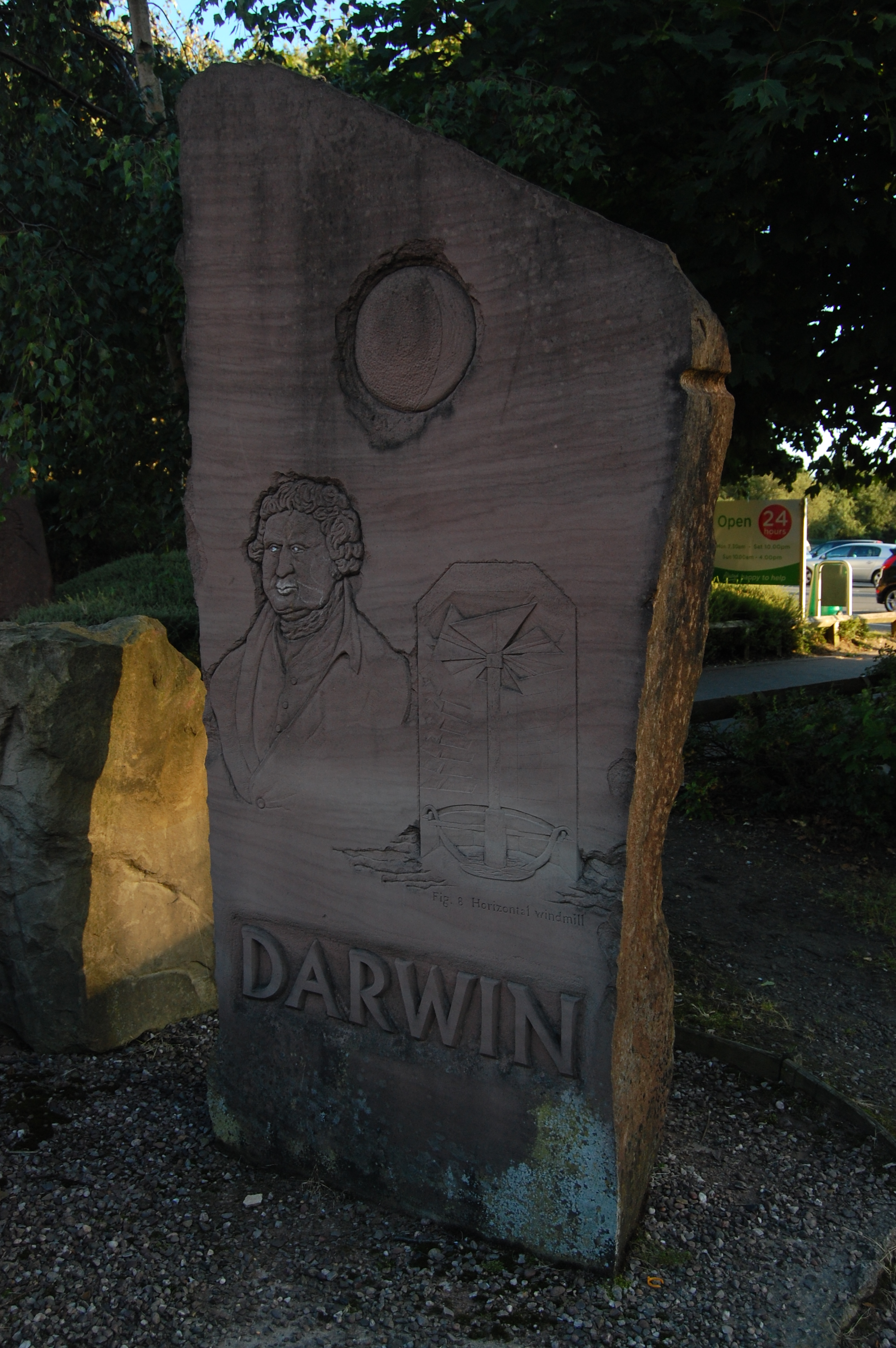 The Lunar Society Moonstones at Great Barr, Birmingham, England, commemorate members of the Lunar Society of Birmingham.